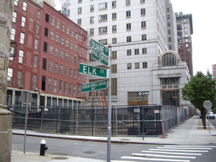 African Burial Ground, Manhattan, New York - under construction